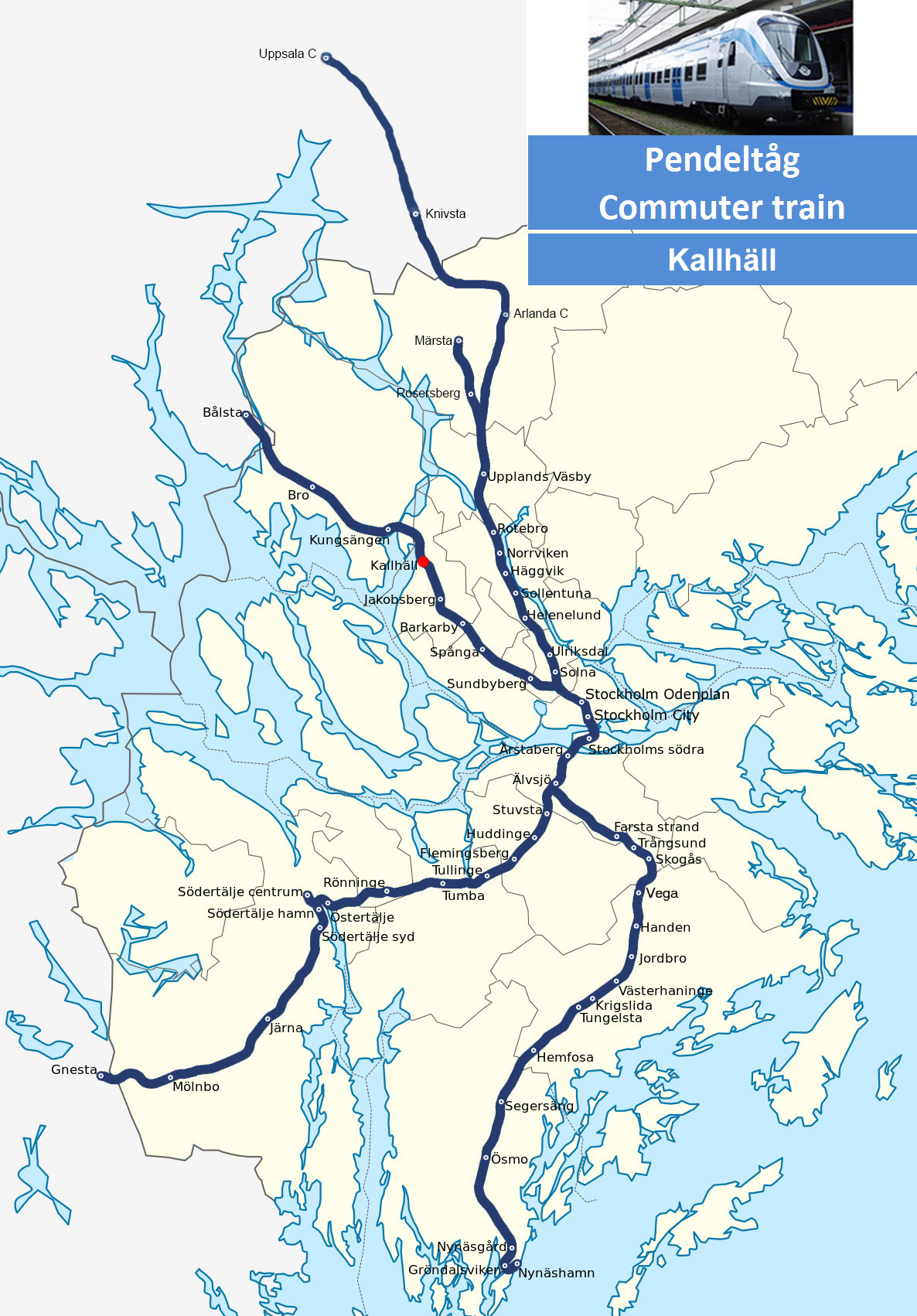 Kälhall station map